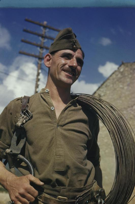 The British Army in Italy, April 1944 The 'Signal Lineman'. Signalman A Johnson of P Line Section (No 1) Company, 8th Army Signals, with a role of wire at the main headquarters of the Eighth Army in the San Angelo area of Italy. Signalman Johnson, a former bus conductor from Mill Hill, left England for Egypt in February 1942. He served with the Eighth Army in Egypt until Mareth, then went to Sicily, and has been in Italy since October 1943.